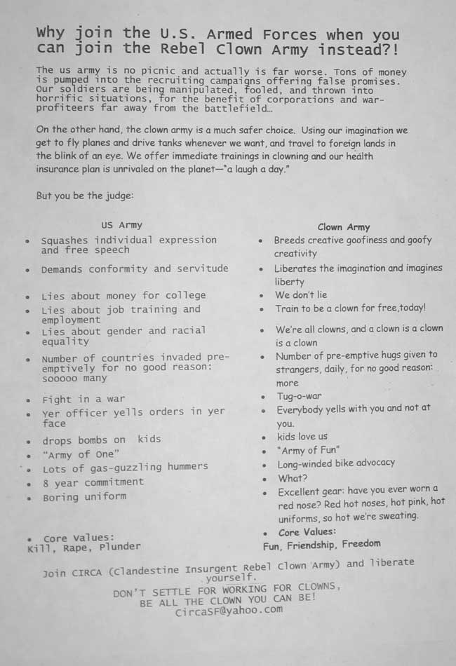 Major Mischief : "Yeah, it's all cool to post the flier. And for the record, I'll agree to license it to the public domain. I'm sending you another image that should be more legible."